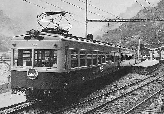 Odakyu 1700